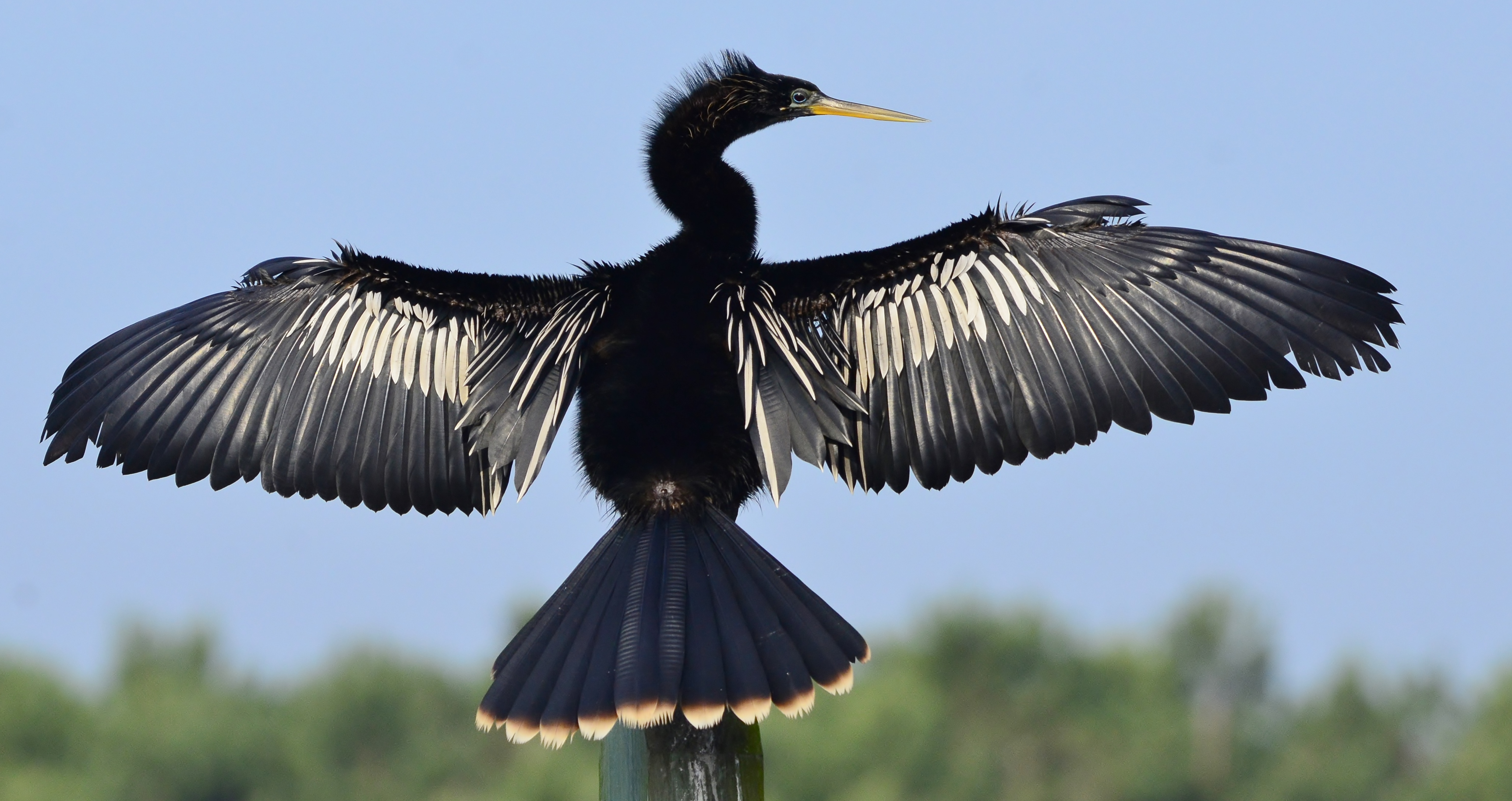 Huntington Beach State Park, Murrells Inlet, South Carolina, USA